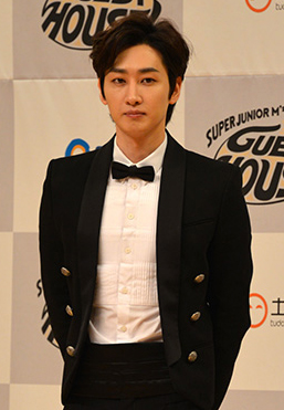 Super Junior's Eunhyuk.조선말: 슈퍼주니어 은혁.